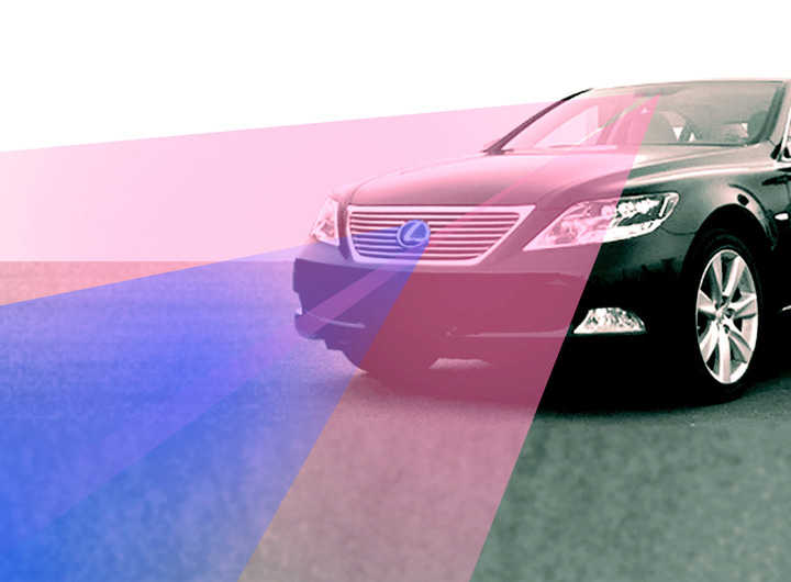 Lexus LS Pre-Collision System; showing radar sensors (blue) / infrared stereocameras (red)